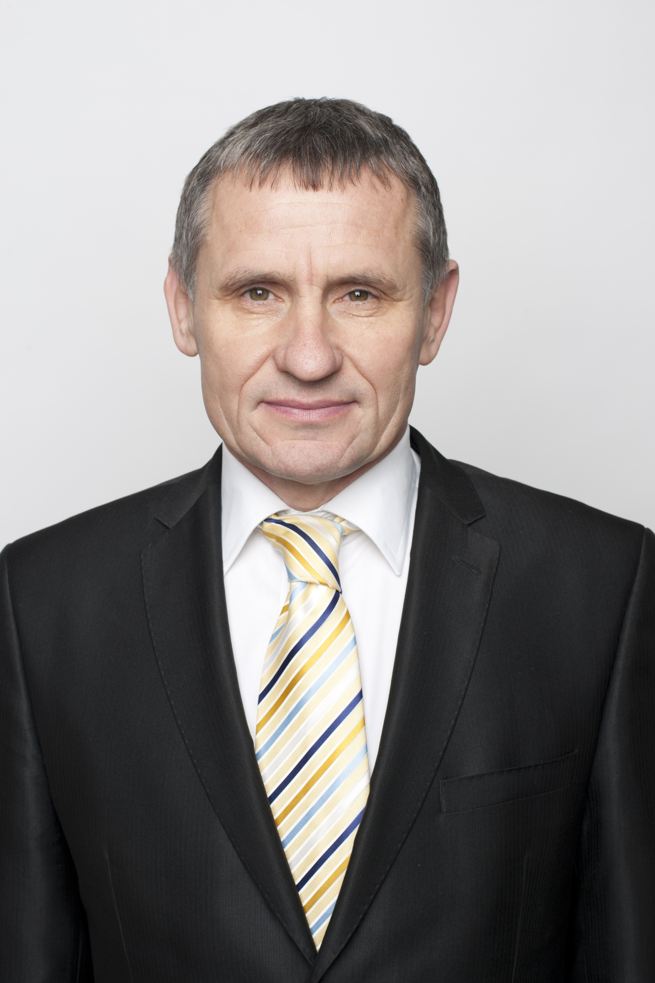 Jiří Čunek, from 2012 member of the Senate of the Parliament of the Czech Republic